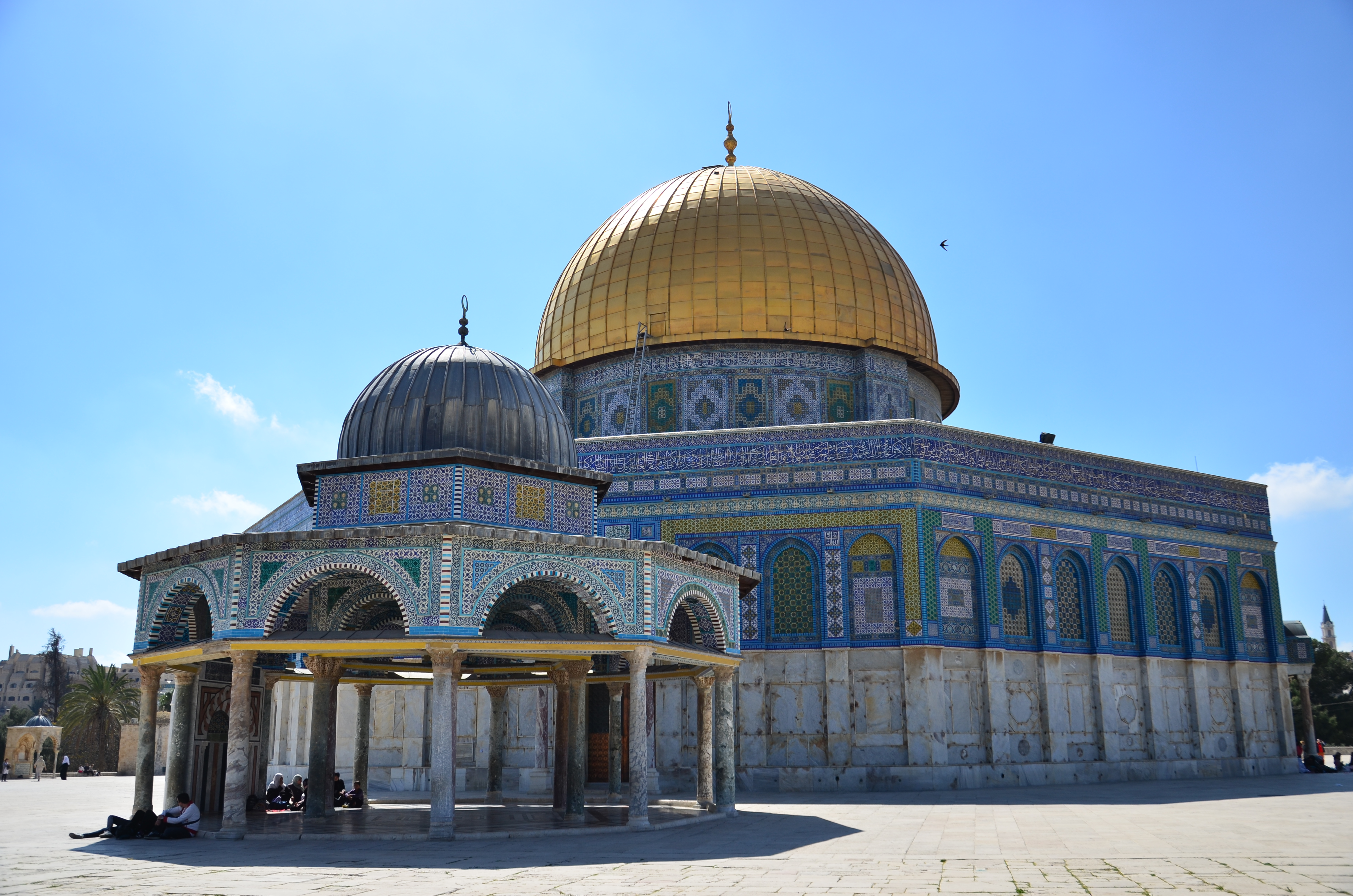 The Temple Mount and the Dome of the Rock, known as the Haram Ash-Sharif (Arabic: الحرم القدسي الشريف, al-haram al-qudsī ash-sharīf, Noble Sanctuary), is one of the most important religious sites in the Old City of Jerusalem. It has been used as a religious site for thousands of years. At least four religions are known to have used the Temple Mount: Judaism, Christianity, Roman religion, and Islam.